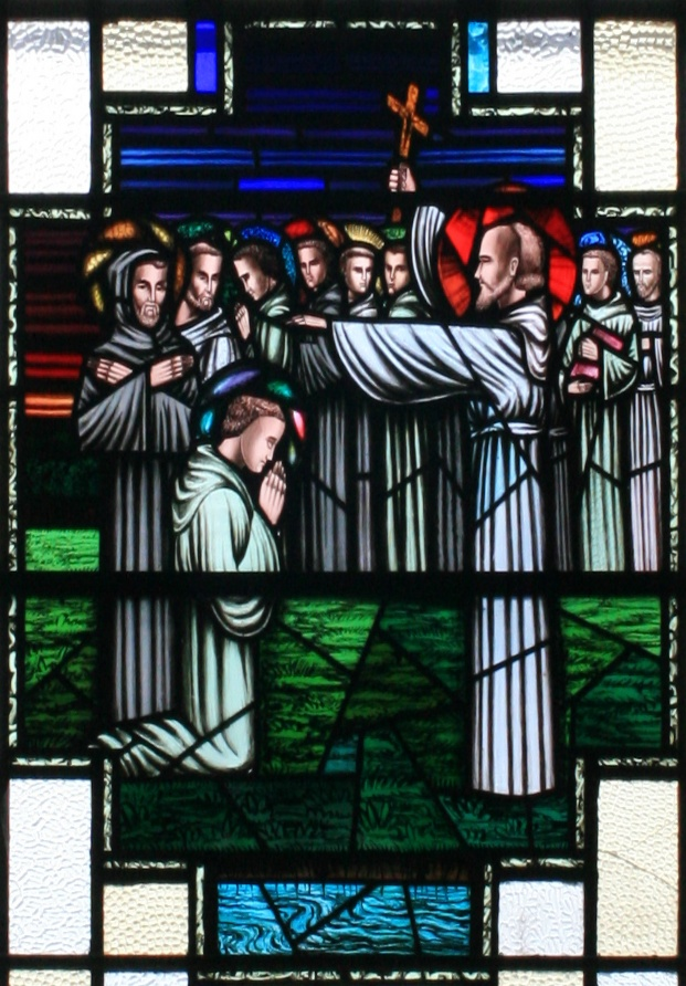 Clonard, County Meath, Ireland Detail of the seventh stained glass window in a series depicting the life of St. Finian in the Church of St. Finian at Clonard. The windows were created by Hogan in 1957. The inscription reads: Saint Finian imparts his blessing to twelve apostles of Ireland. This image has been cropped from this image.